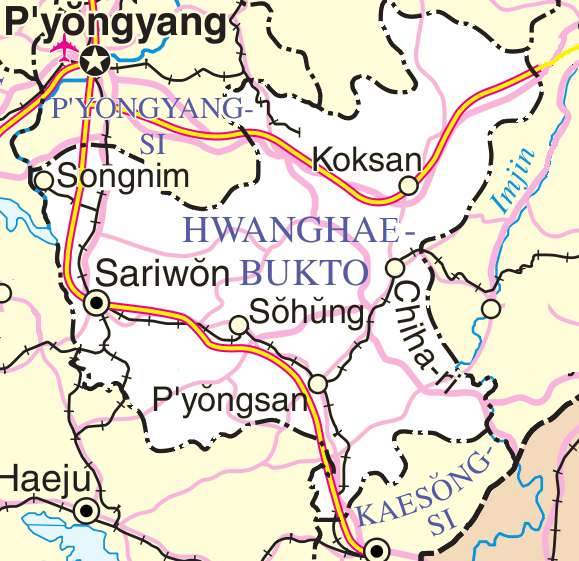 Map of Hwanghae-Bukdo, cropped from Un-north-korea.png